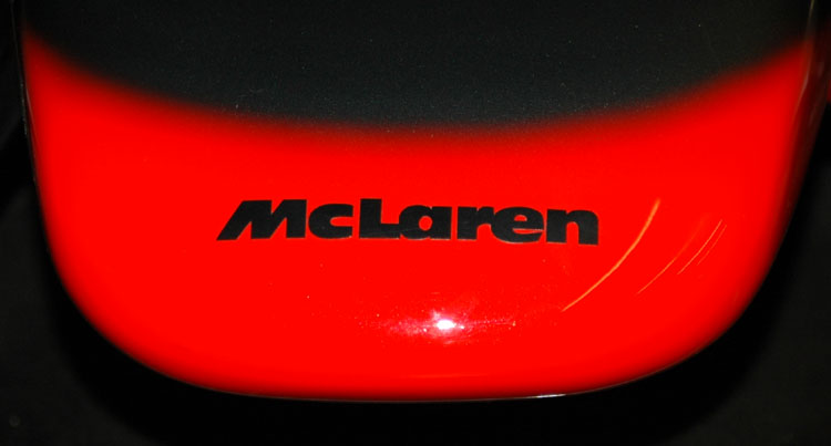 McLaren MP4/12 in Donington museum